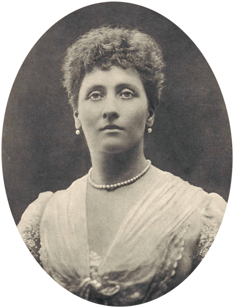 Photogravure of Princess Louise. Bust length with curled hair in knot, pearl earrings and necklace, low gown, and lace shawl. Oval with English inscription below.